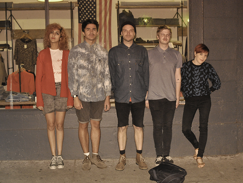 A photo of the band Level & Tyson from their visit to California in october 2014.